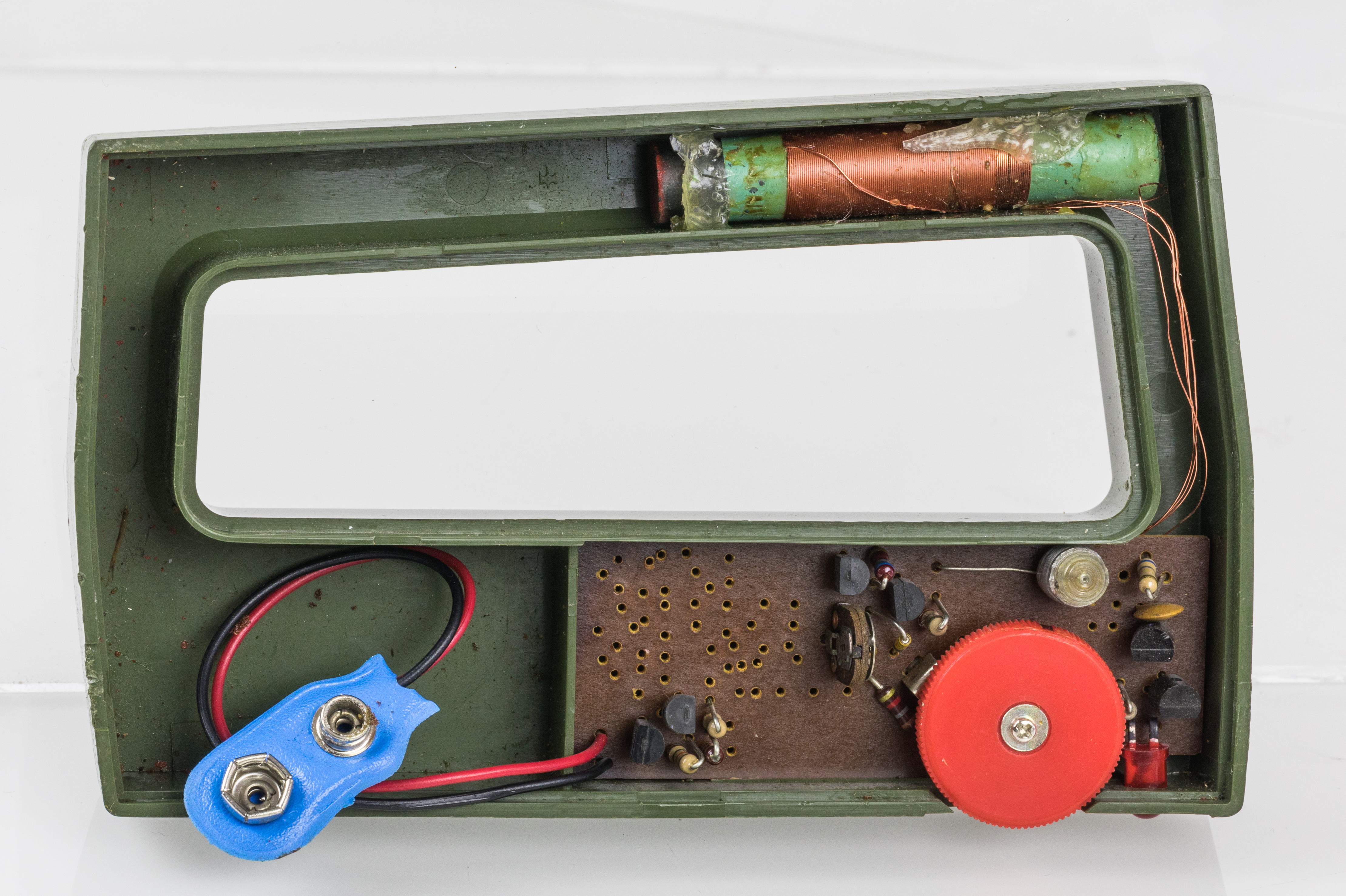 Proxxon metall finder - case opened